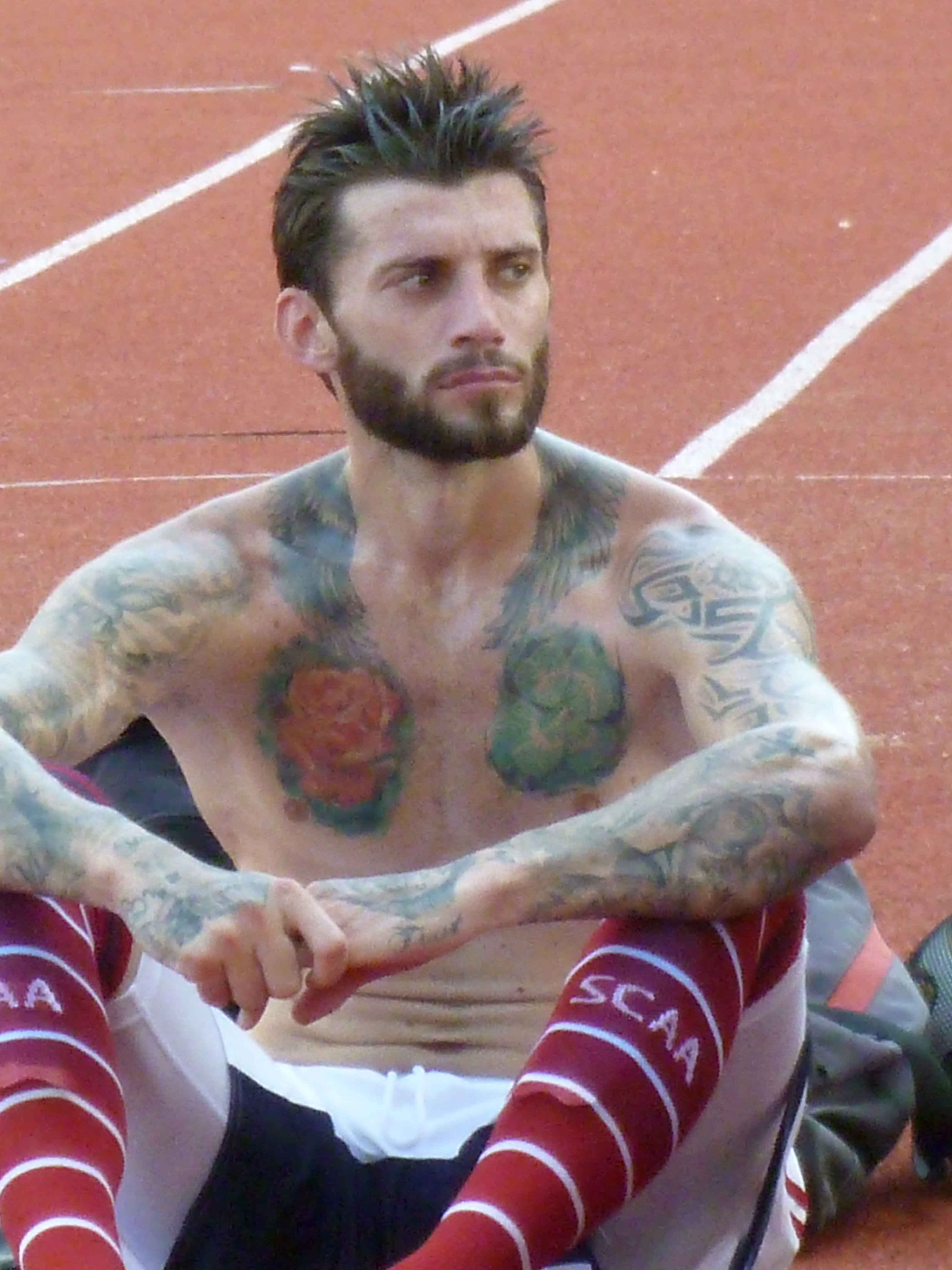 Bojan Mališić (18 Sept 2014, Friendly Match, South China vs YFCMD, Siu Sai Wan Sports Ground)中文（香港）: 保贊 (18 Sept 2014, 友賽, 南華 vs YFC澳滌, 小西灣運動場)